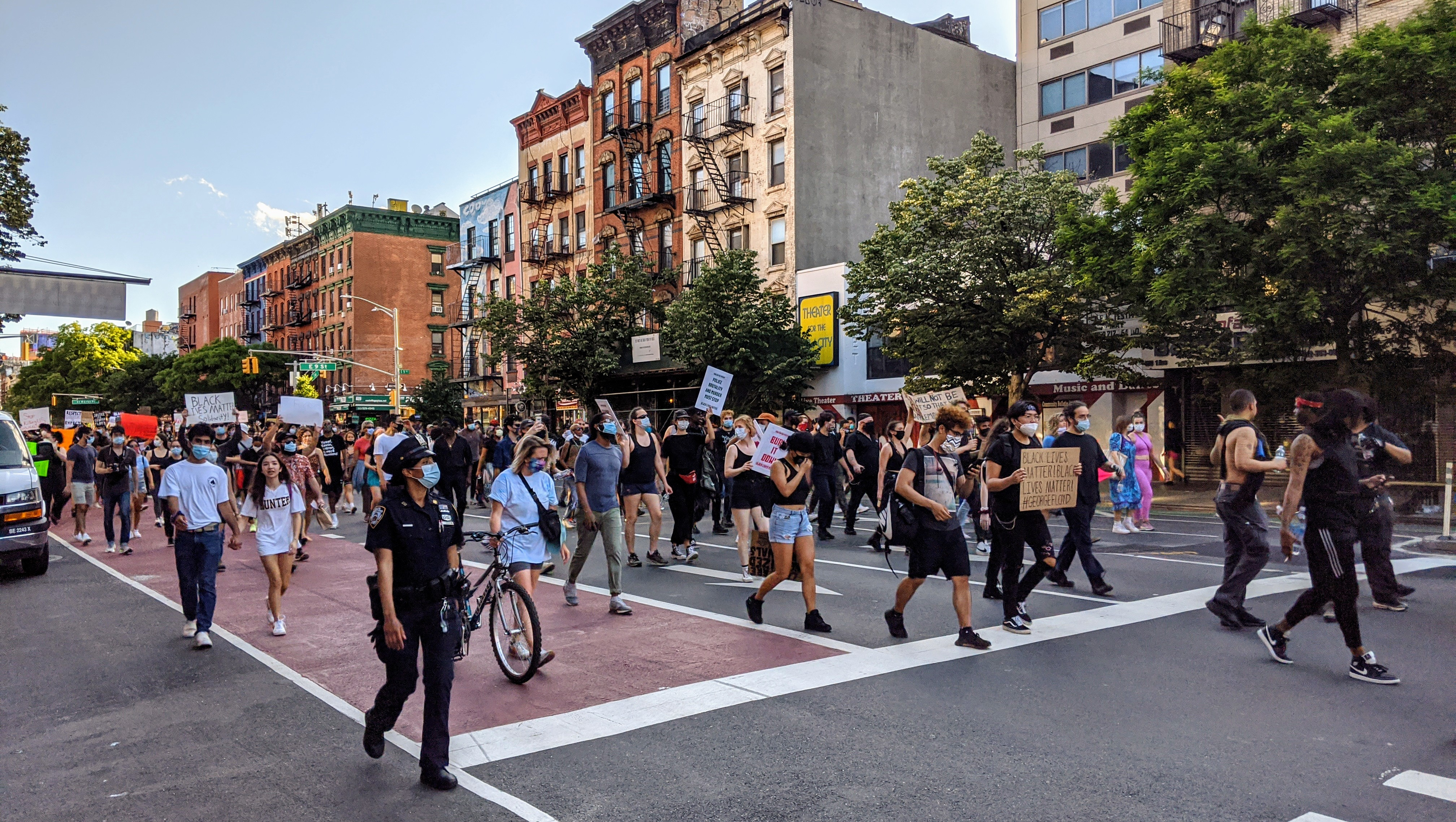 Black Lives Matter March